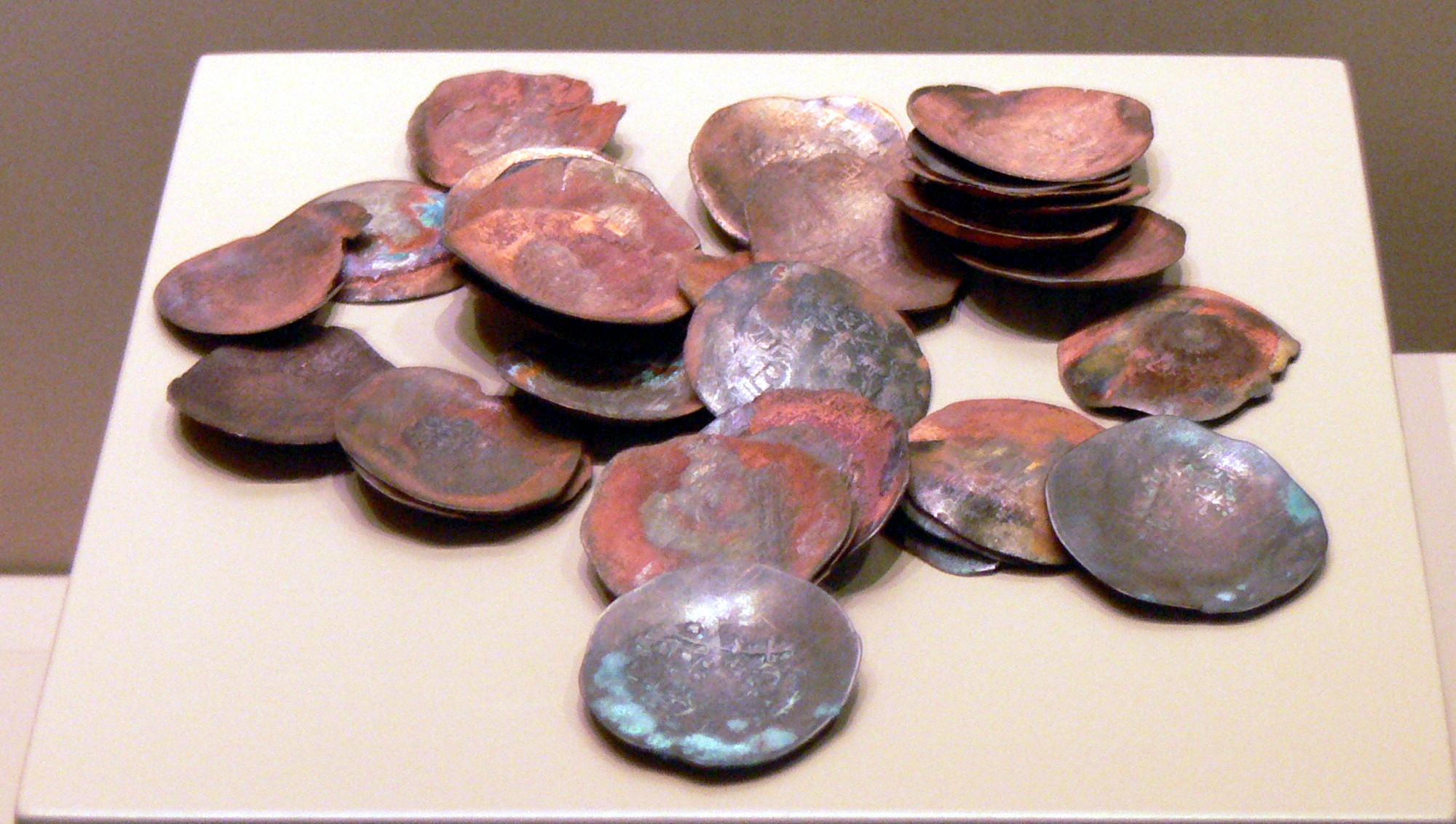 Nicosia ( Cyprus ). Leventio Municipal Museum: "Treasure of Nicosia" with byzantine coins ( 11th/12th century )